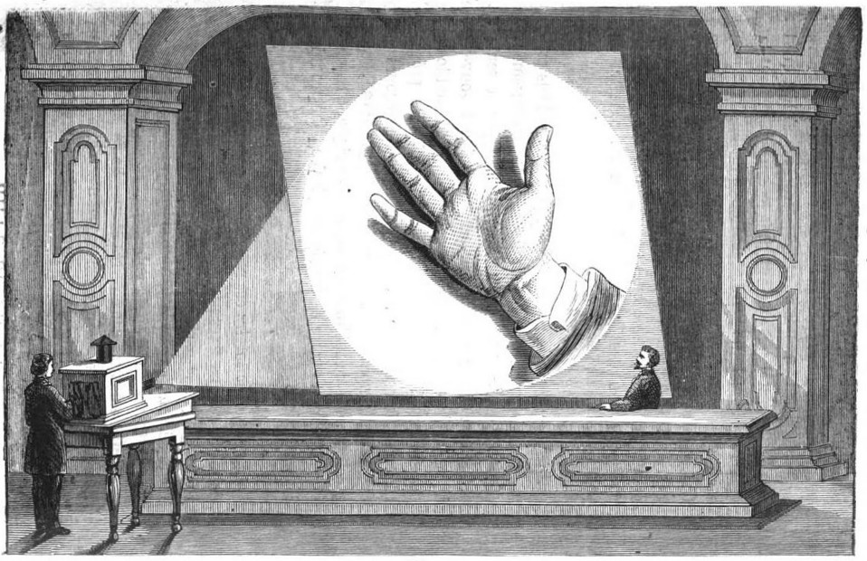 A.E. Dolbear's illustration of